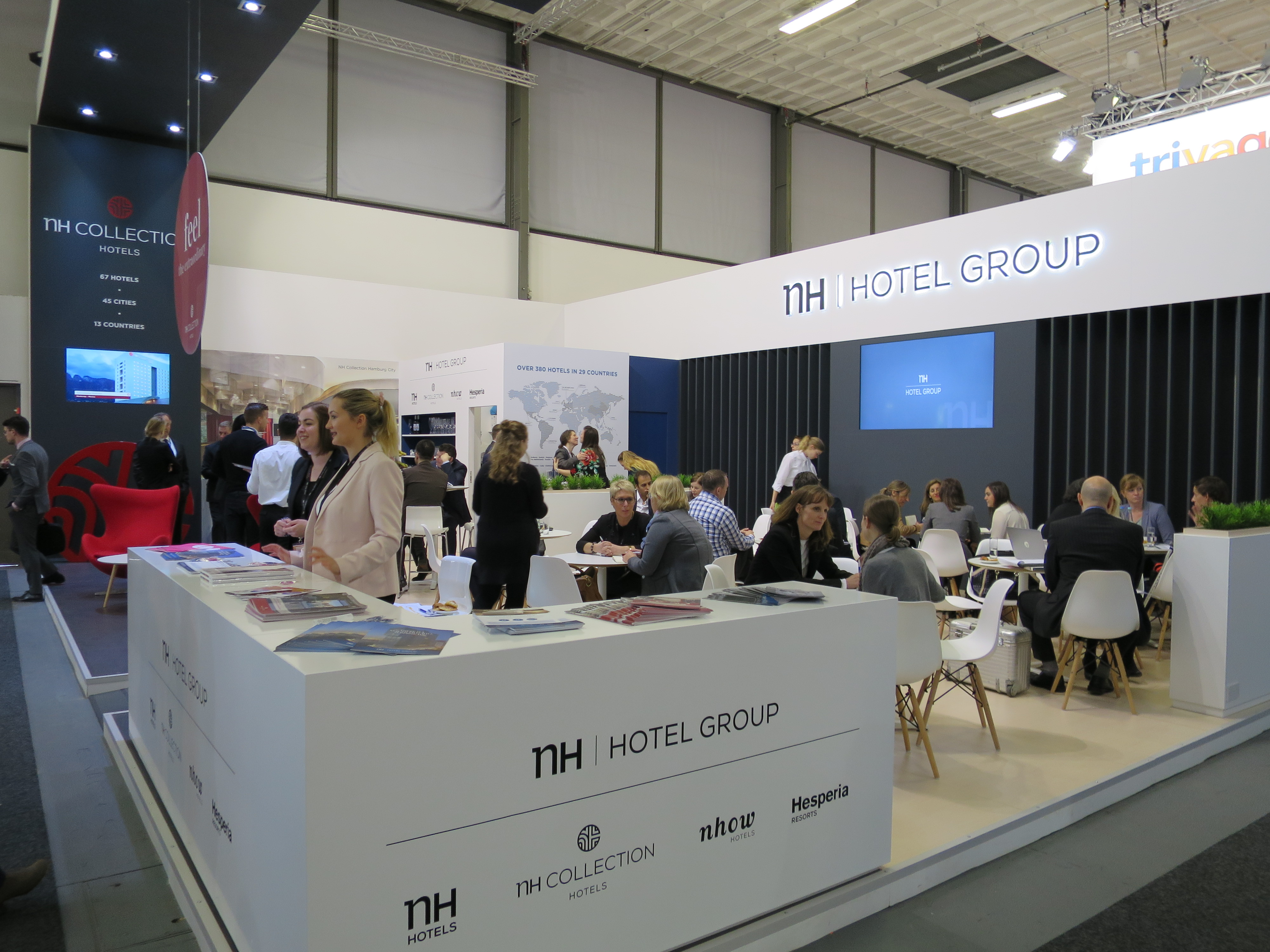 NH Hotel Group.